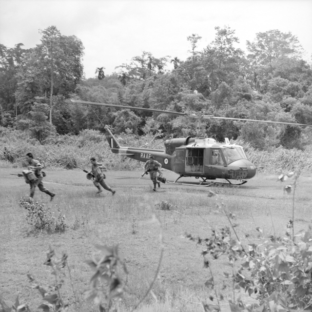 MALAYSIAN RANGERS, OPERATING IN THE MALAYA-THAILAND BORDER REGION, LEAP FROM A RAAF 5 SQUADRON BELL IROQUOIS UH-1H HELICOPTER (A2-385) AS IT TOUCHES DOWN IN A JUNGLE CLEARING. THESE MALAYSIAN RANGERS ARE ETHNIC IBANS, FROM SARAWAK, BORNEO.